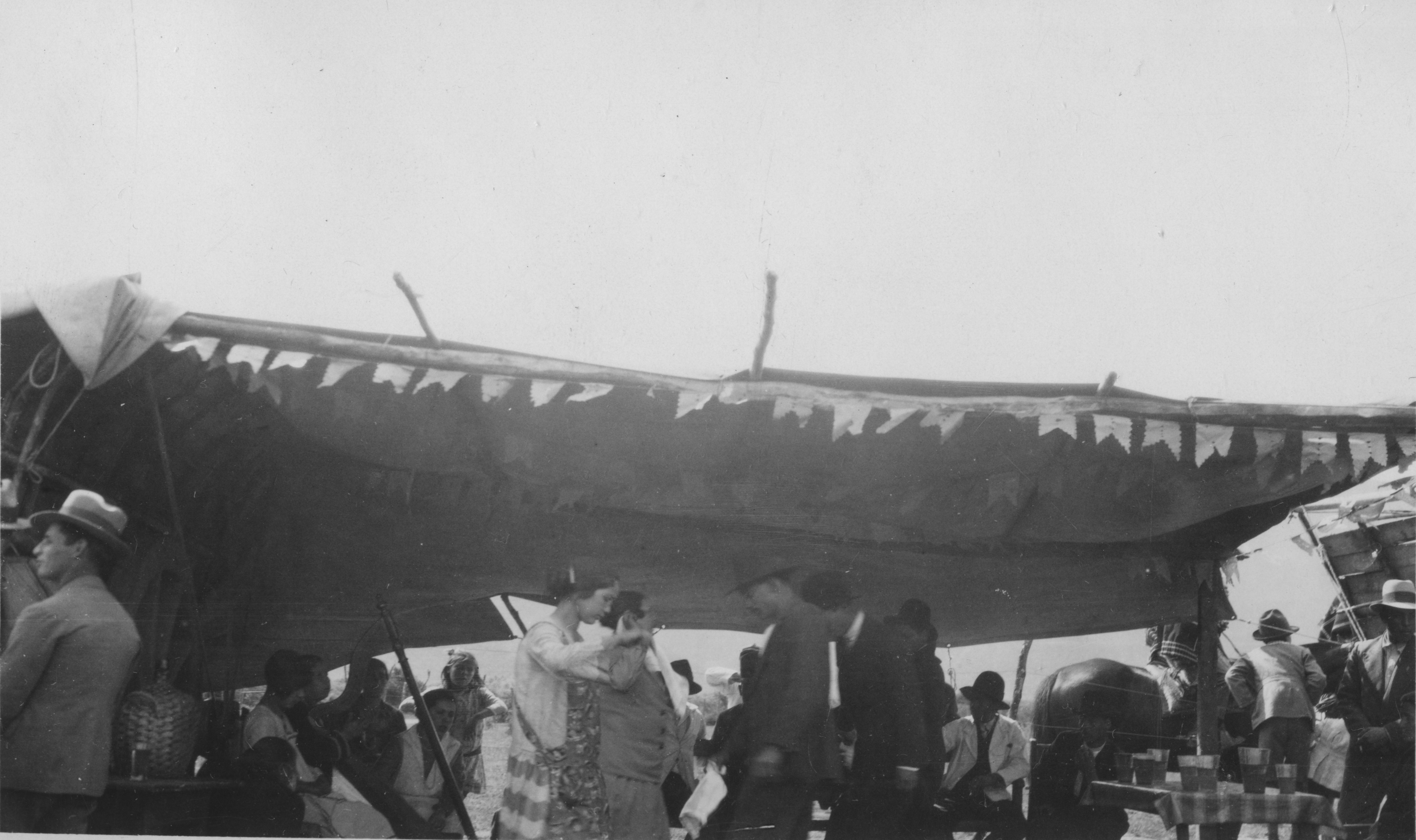 People performing the national dance of Chile, the cueca.